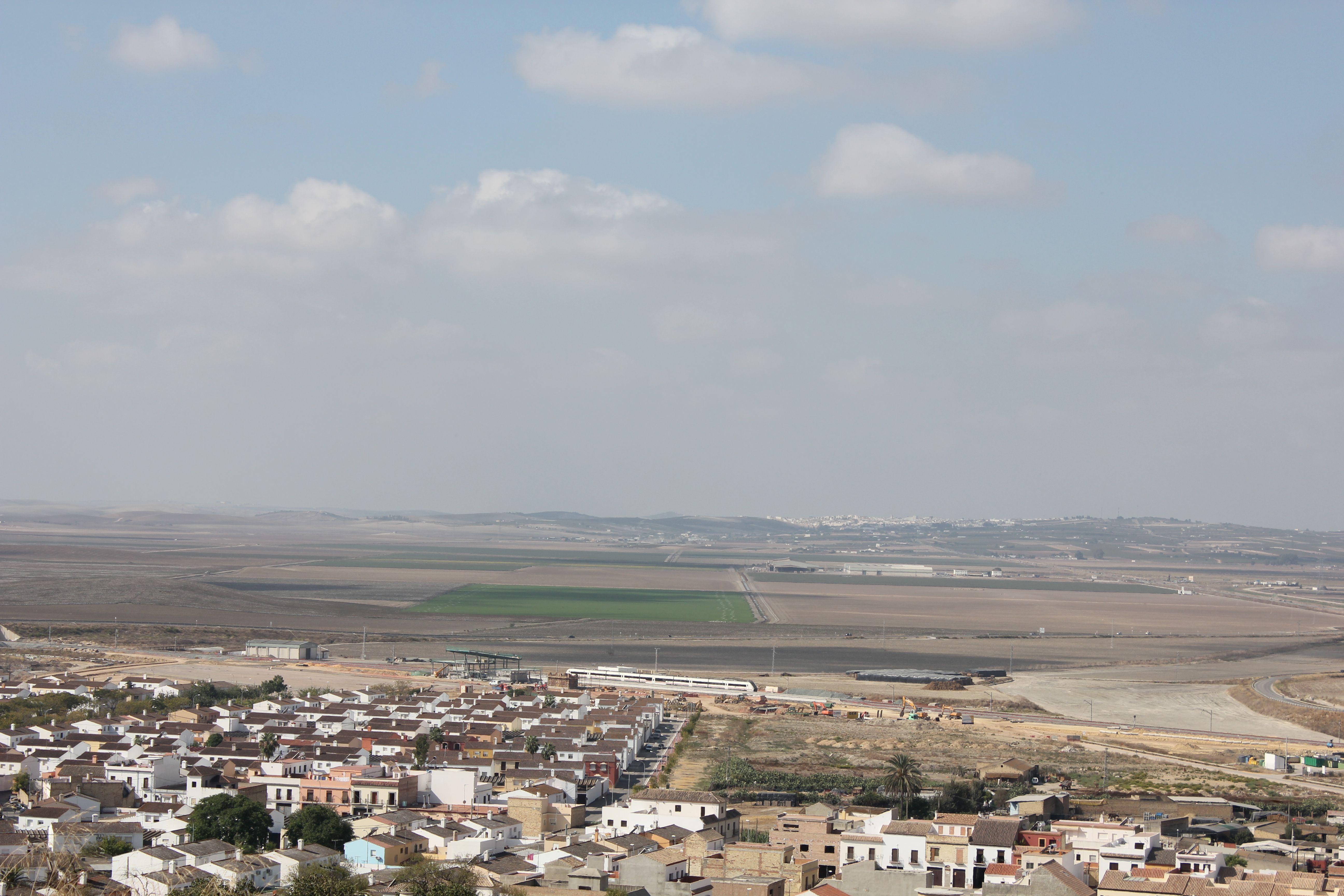 Trebuejan from the castle of Lebrija